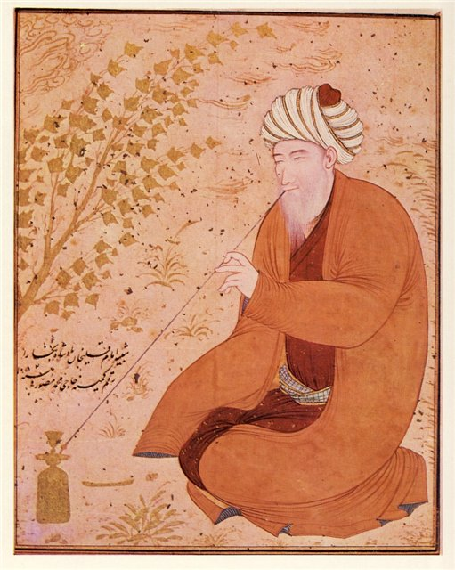 portrait of Imamquli-khan